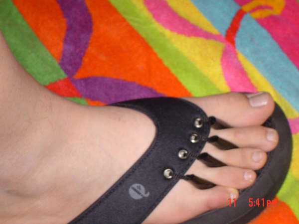 Quatros sandals. Anybody can use this on any site or anything they want to